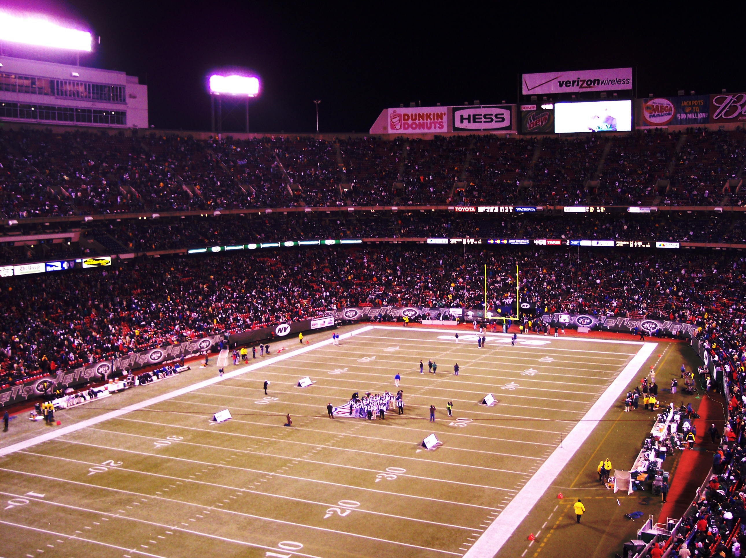 The playing field at Giants Stadium.